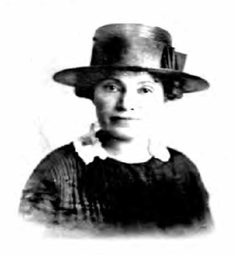 Dr. Louise G Rabinovitch, about 1921